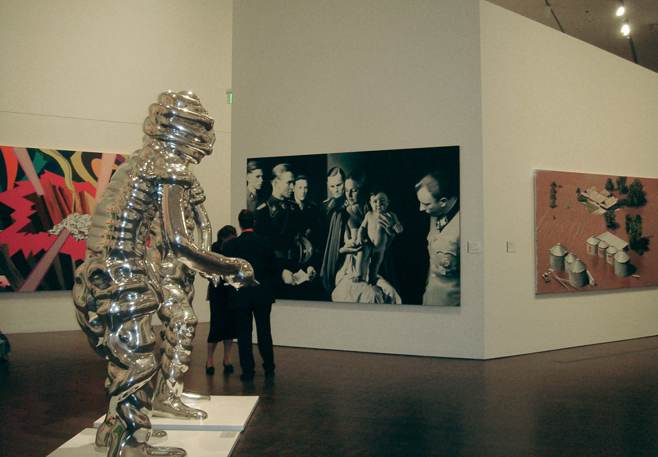 "Epiphany I (Adoration of the Magi)", oil and acrylic on canvas, by Gottfried Helnwein, at the The Denver Art Museum, 'Radar - Selections from the Collection of Vicki and Kent Logan', 2006